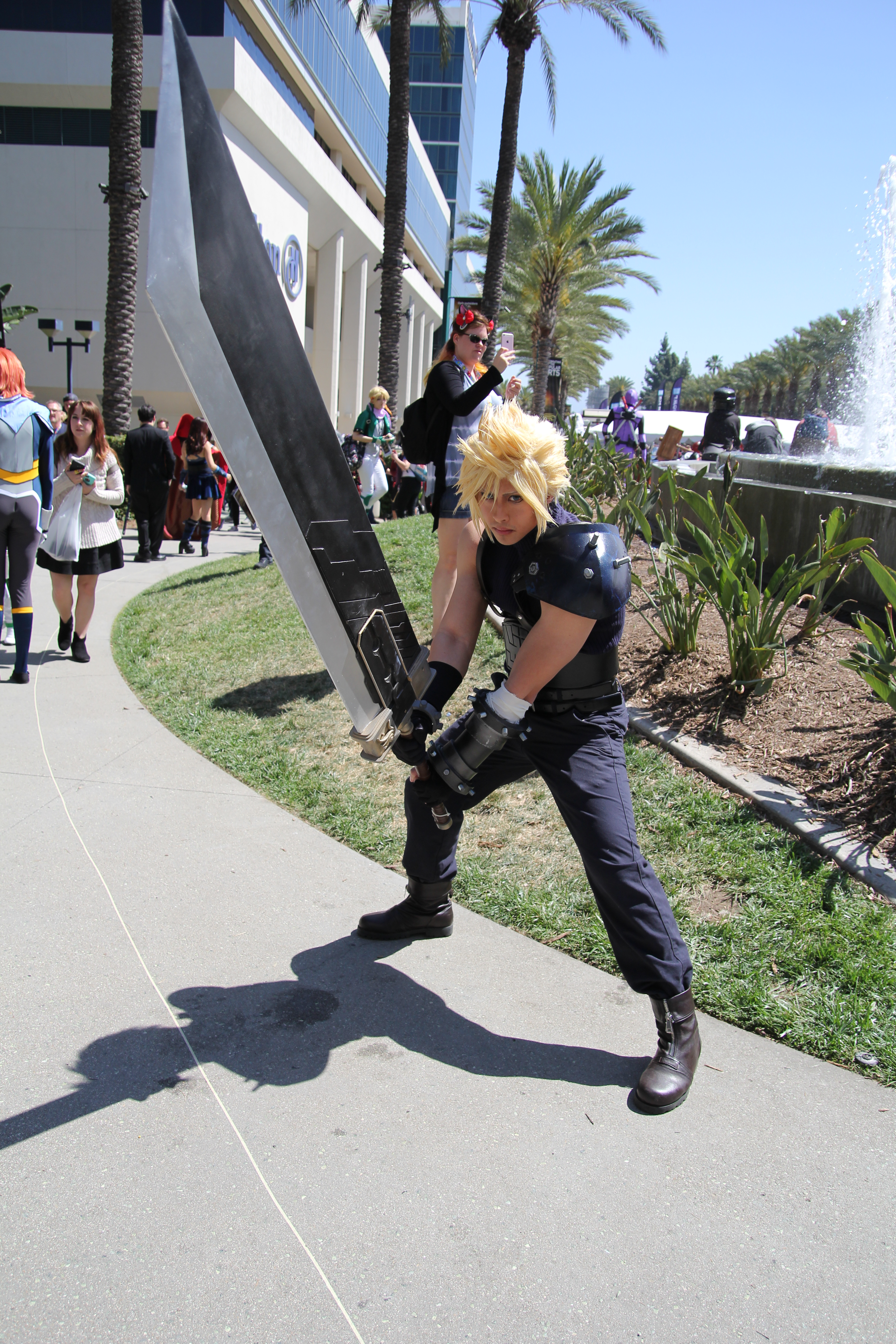 Cosplay of Cloud Strife